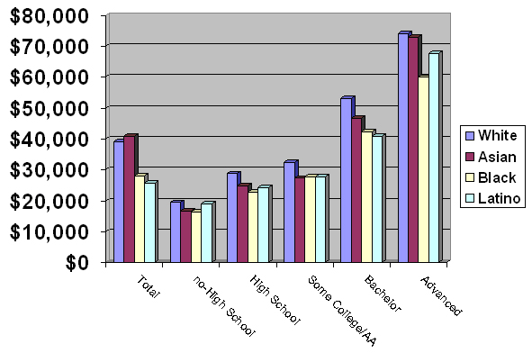 I created the graph myself with 2003 Census Data.